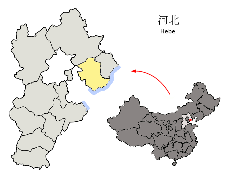 Location of Tangshan Prefecture (yellow) within Hebei Province of China 简体